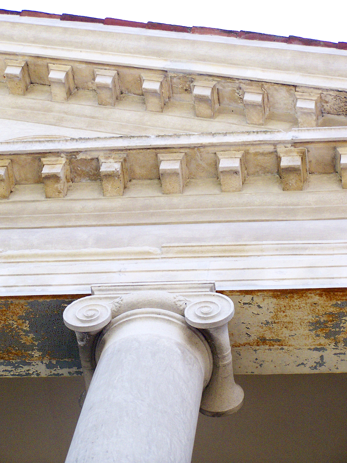 Ionic capital and pediment at Villa Capra "La Rotonda" in Vicenza, Italy